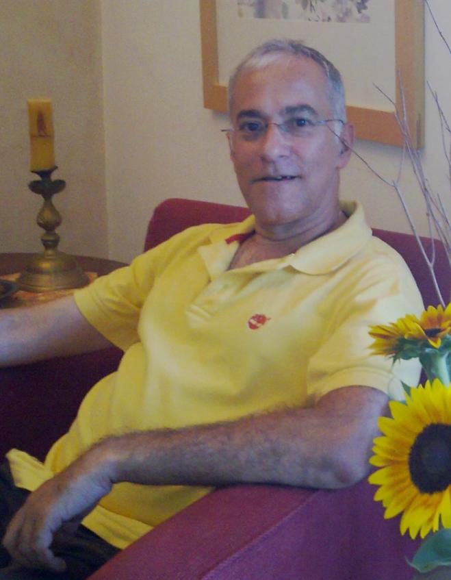 Izi Mann